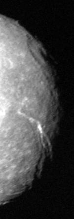 Original caption: The terminator region of Titania, one of Uranus' five large moons, was captured in this Voyager 2 image obtained in the early morning hours of Jan. 24, 1986. Voyager was about 500,000 kilometers (300,000 miles) from Titania and inbound toward closest approach. This clear-filter, narrow-angle view is along the terminator -- the line between the sunlit and darkened parts of the moon. The low-angle illumination shows the shape of the surface very clearly. Among the features visible are long linear valleys perhaps 50-100 km (30-60 mi) wide and several hundred km (or mi) long. At least two directions of faulting are visible, as are many circular impact craters attributed to cosmic debris. The resolution of this image is about 9 km (6 mi). The Voyager project is managed for NASA by the Jet Propulsion Laboratory.